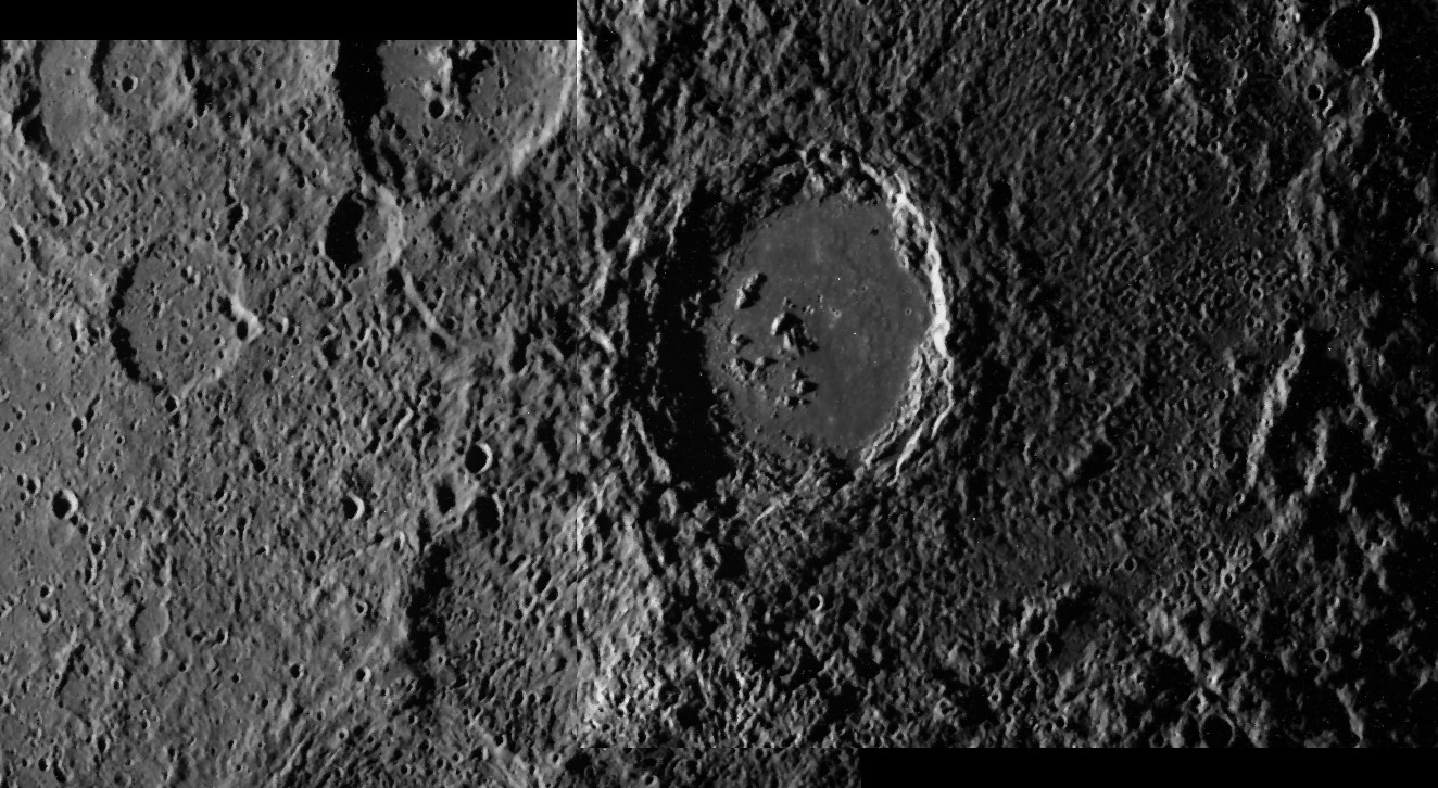 Mosaic of two Mariner 10 images showing Hitomaro crater (near center) and vicinity on Mercury. The images were taken within less than 1 minute of each other on Mariner 10's first flyby (of three) on March 29, 1974. The larger basin centered to the right is not named as of this upload, nor are other craters.